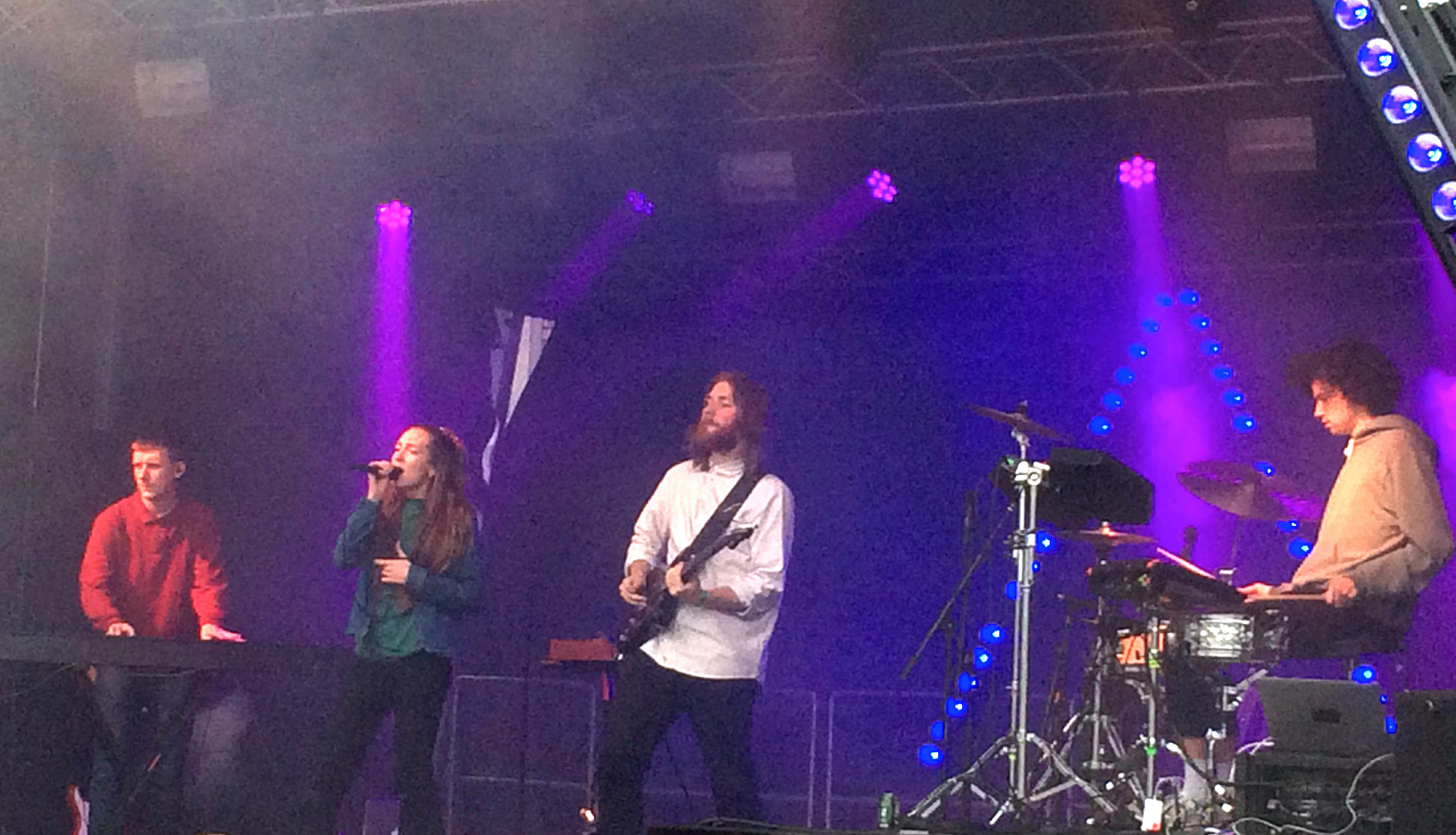 CHINAH performing at The University of Copenhagen Spring Festival on Friday May 5th, 2017 in Copenhagen, Denmark.